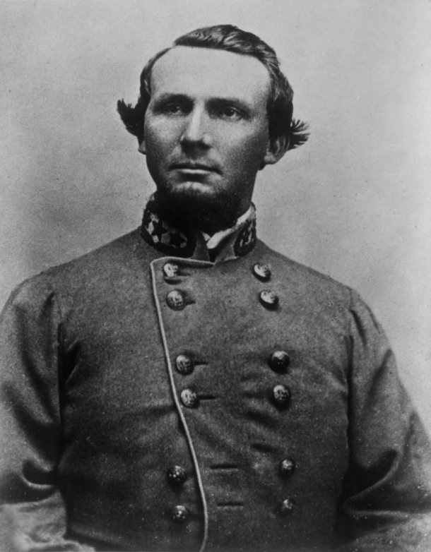 Photo of Confederate General States Rights Gist, taken before 1865. Obtained from on July 11, 2006.